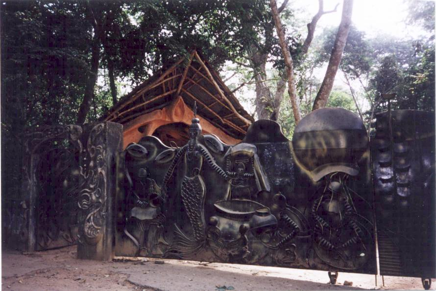 Temple of Osun in Osogbo - Osun state - Nigeria - Africa